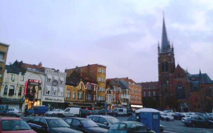 central square of Jette, Belgium